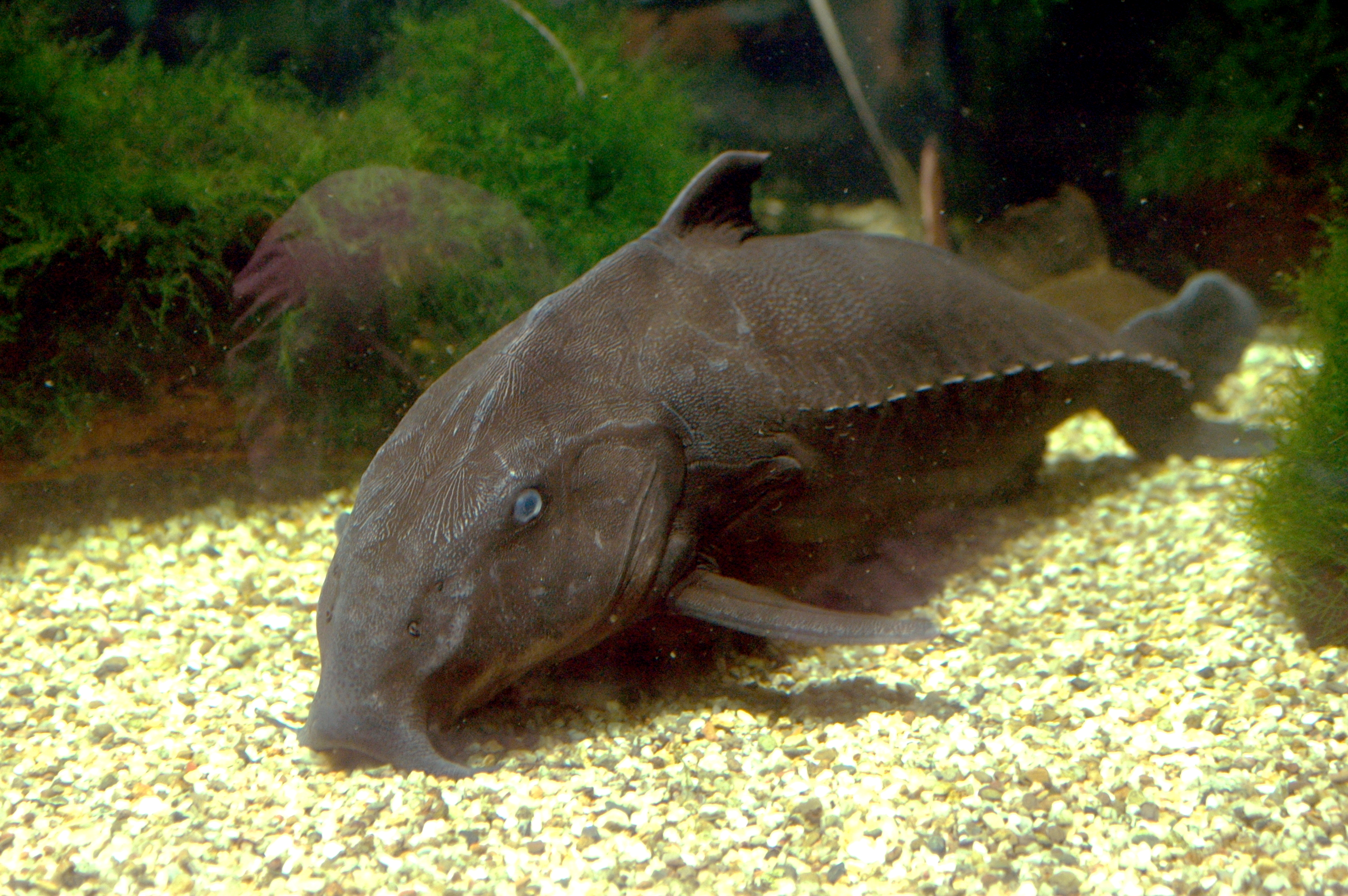 Ripsaw catfish